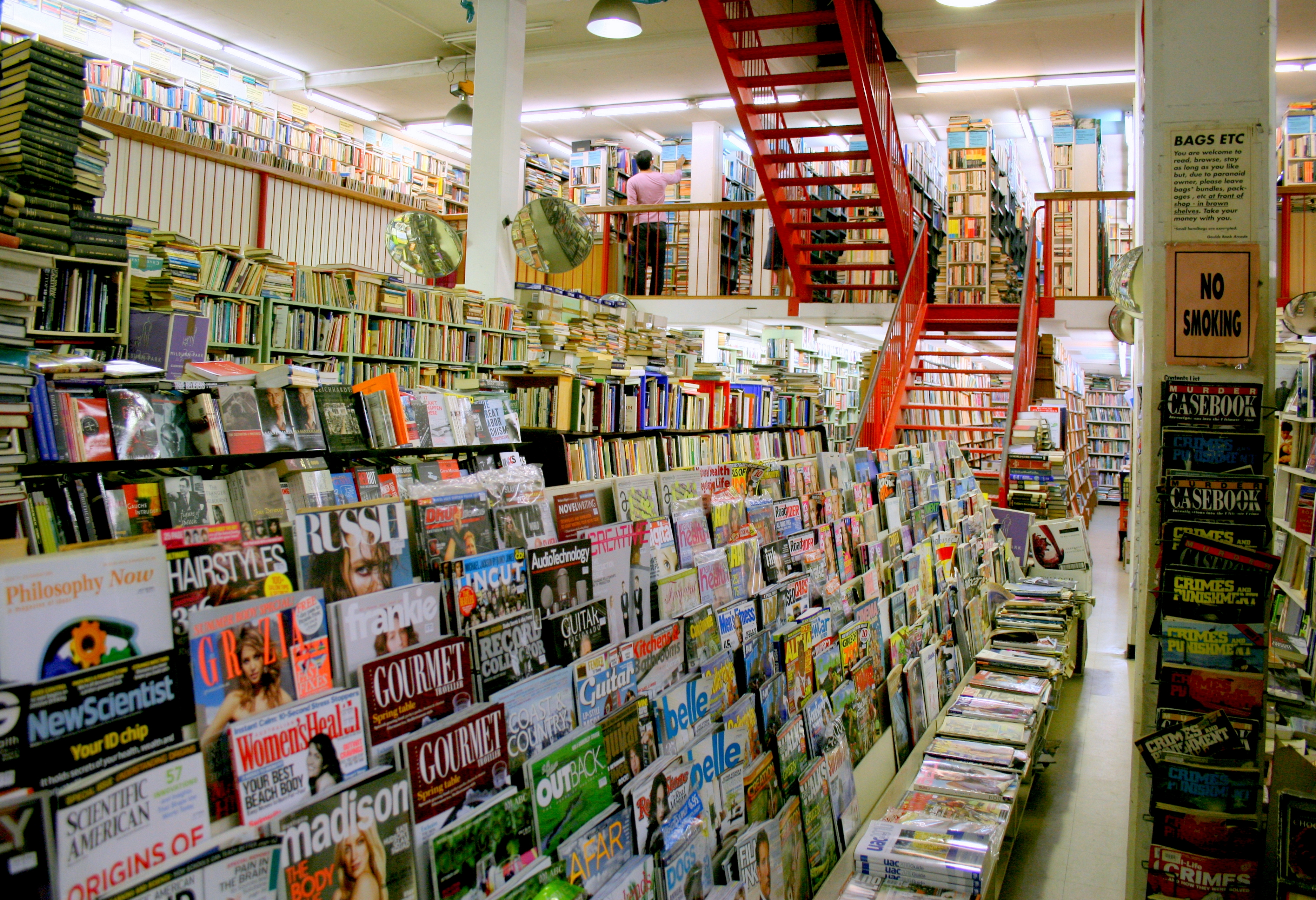 Gould's Book Arcade, a second hand and out of print book store. Located on King Street, Newtown, New South Wales (NSW), Australia.